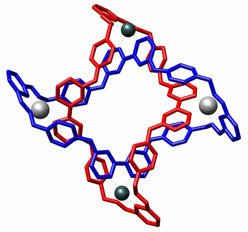 This is a picture generated from crystal structure data reported by Cari D. Pentecost, Kelly S. Chichak, Andrea J. Peters, Gareth W. V. Cave, Stuart J. Cantrill, and J. Fraser Stoddart in Angewandte Chemie International Edition, Year 2007, Volume 46, Pages 218-222. It shows a molecular Solomon's knot which is a type of catenane. The larger grey spheres represent zinc ions and the smaller blue-grey sphere reprents copper ions.